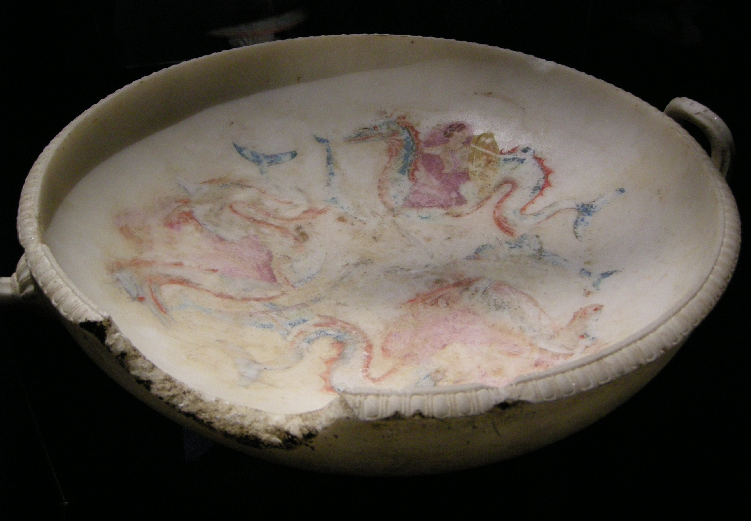 read filename please (it)